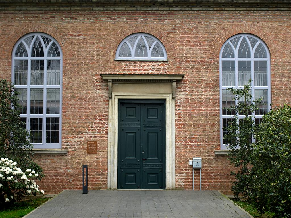 Krempe (Schleswig-Holstein, Germany),Kirche , photo 2009